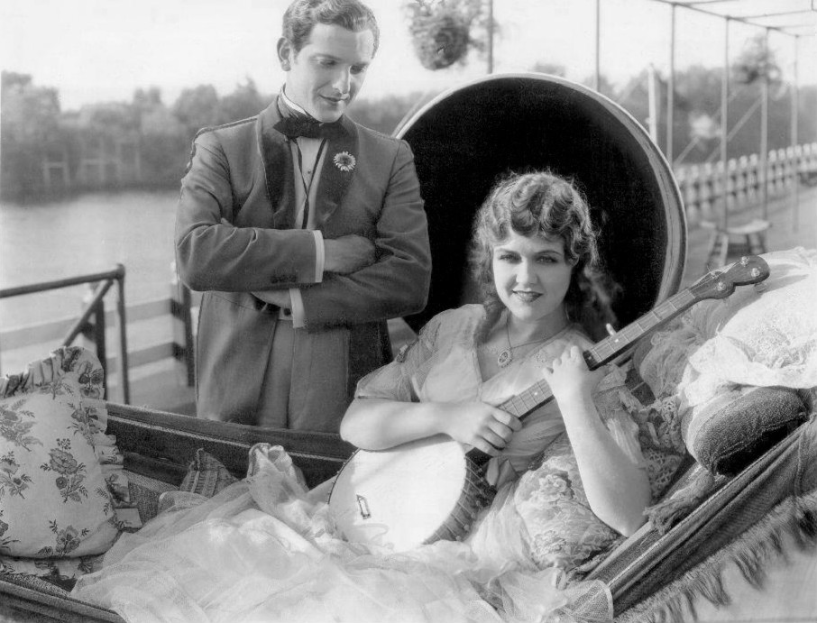 Scene from the 1929 film Show Boat featuring Laura LaPlante as Magnolia Hawks and Joseph Schildkraut as Gaylord Ravenal.